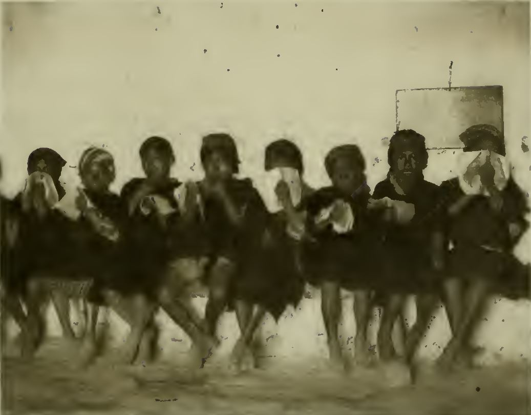 School boys in San Antonio Palopó in 1892.